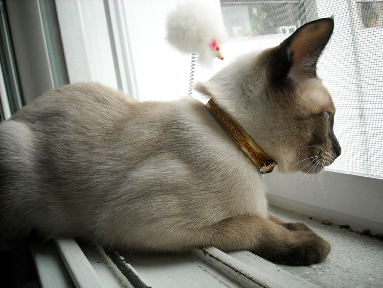 thai cat, siamese cat breed, thaicat, traditional siamese, old style siamese, applehead siamese, Classic Siamese